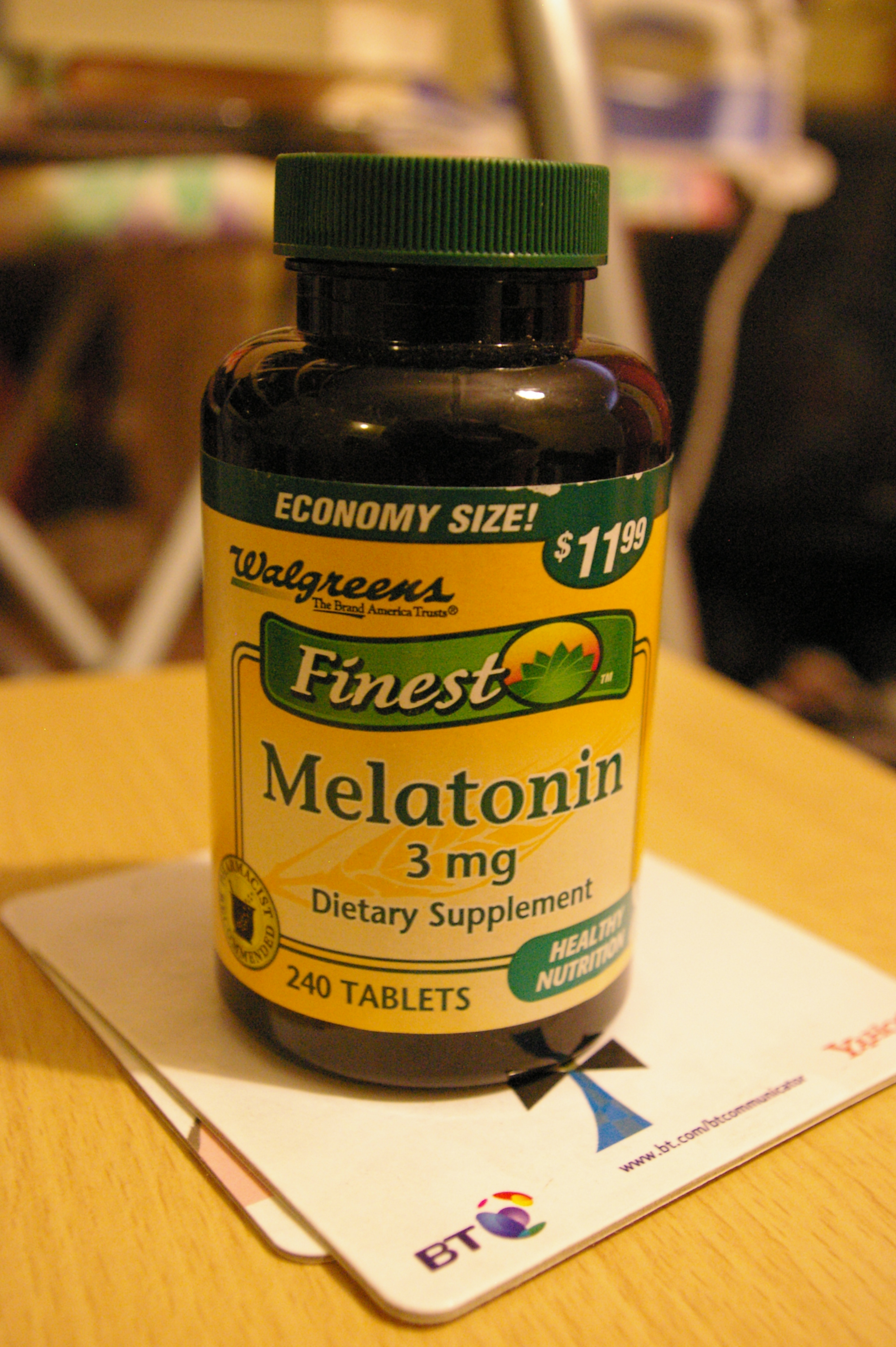 A 240-tablet bottle of melatonin, Walgreens brand. [1]